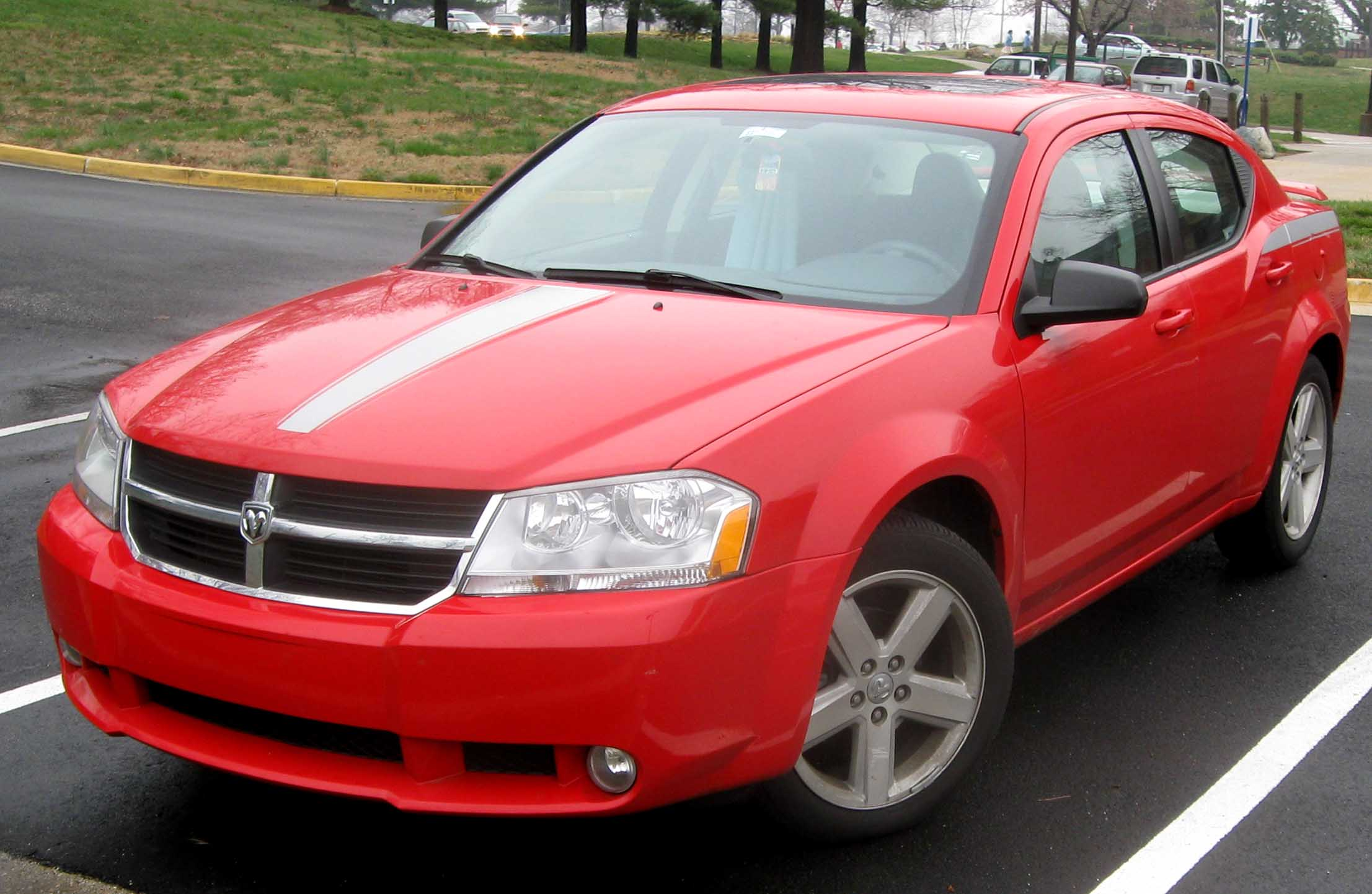 2008-2009 Dodge Avenger photographed in College Park, Maryland, USA.